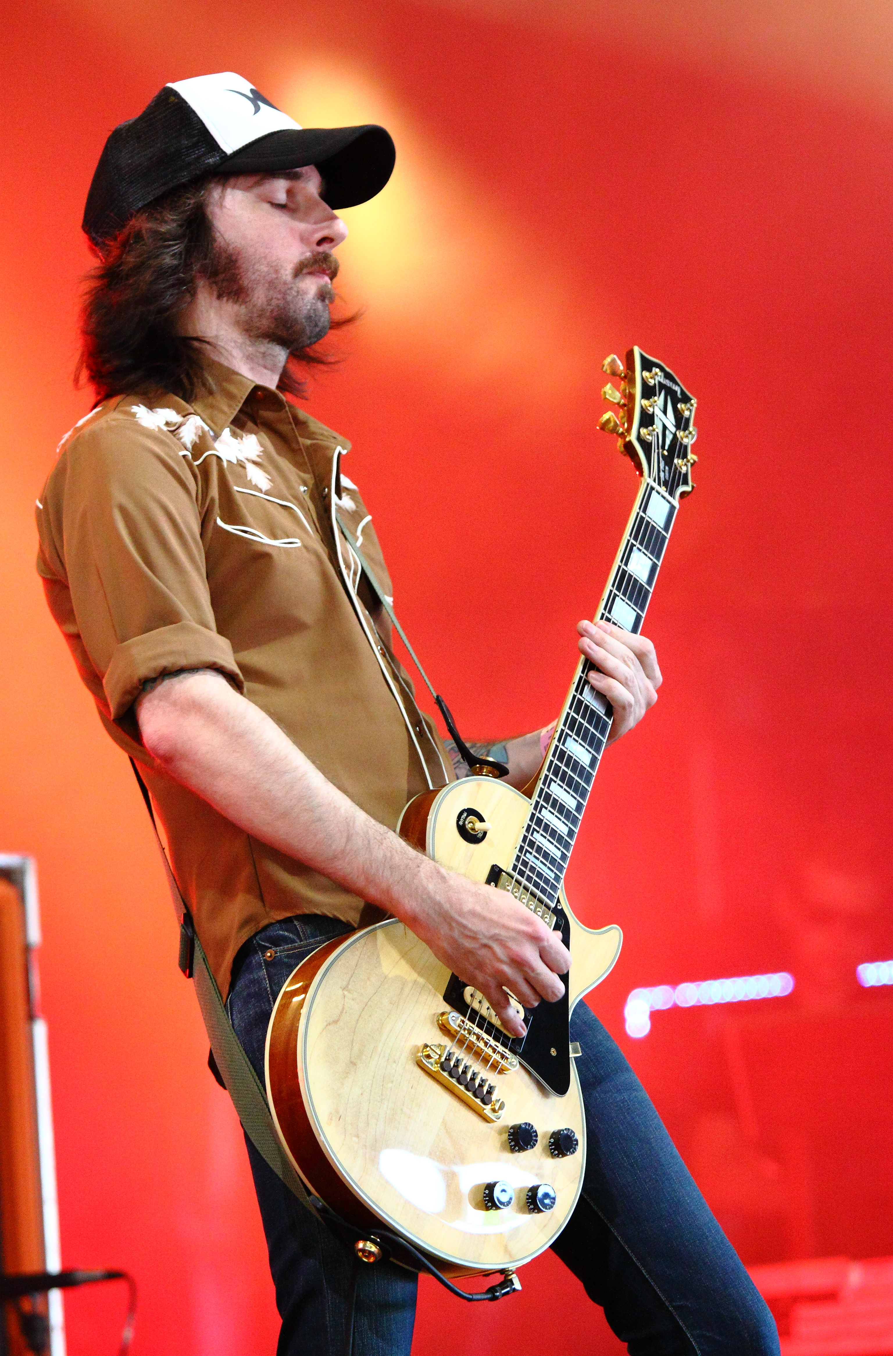 The Sword live at Roskilde Festival 2013